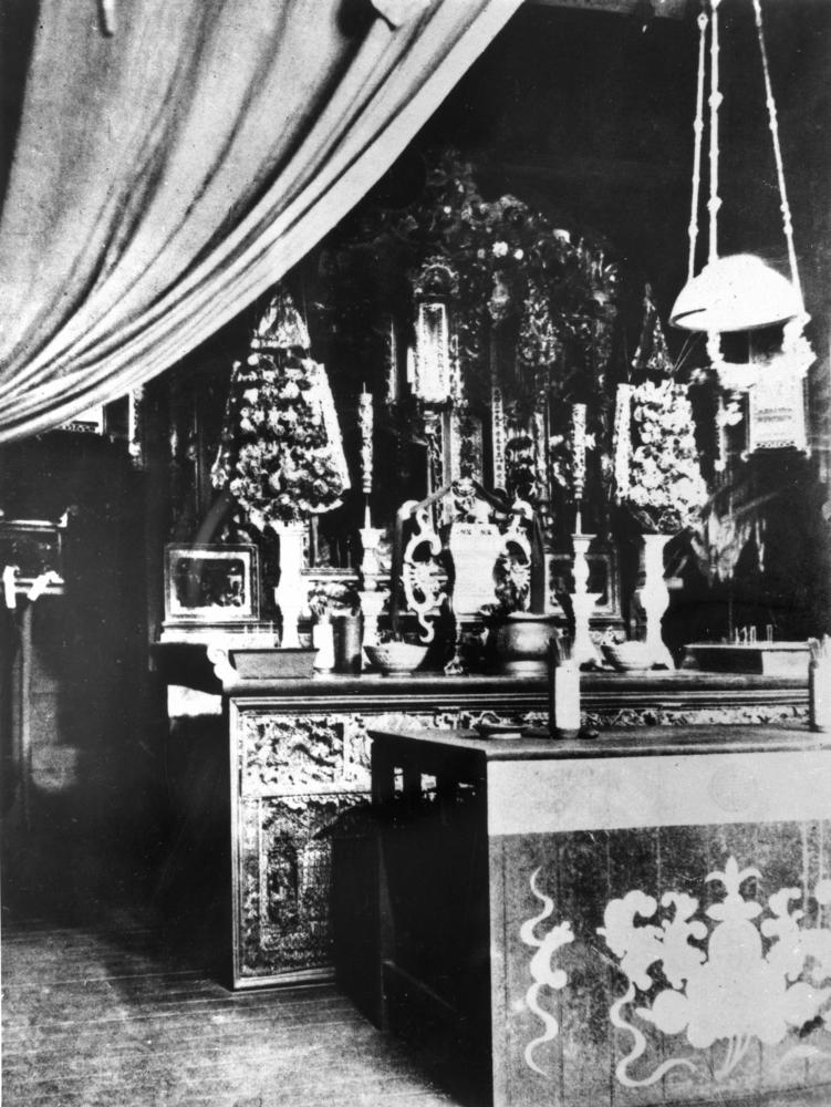 Interior of the Joss House in Atherton, 1929. Interior photograph of the Chinese temple with lamps, carvings and offerings.